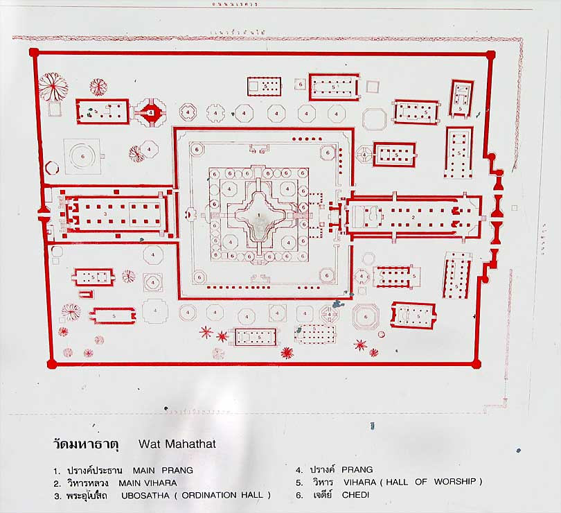 Plan of Wat Mahathat (sign on temple grounds), Ayutthaya, Thailand.